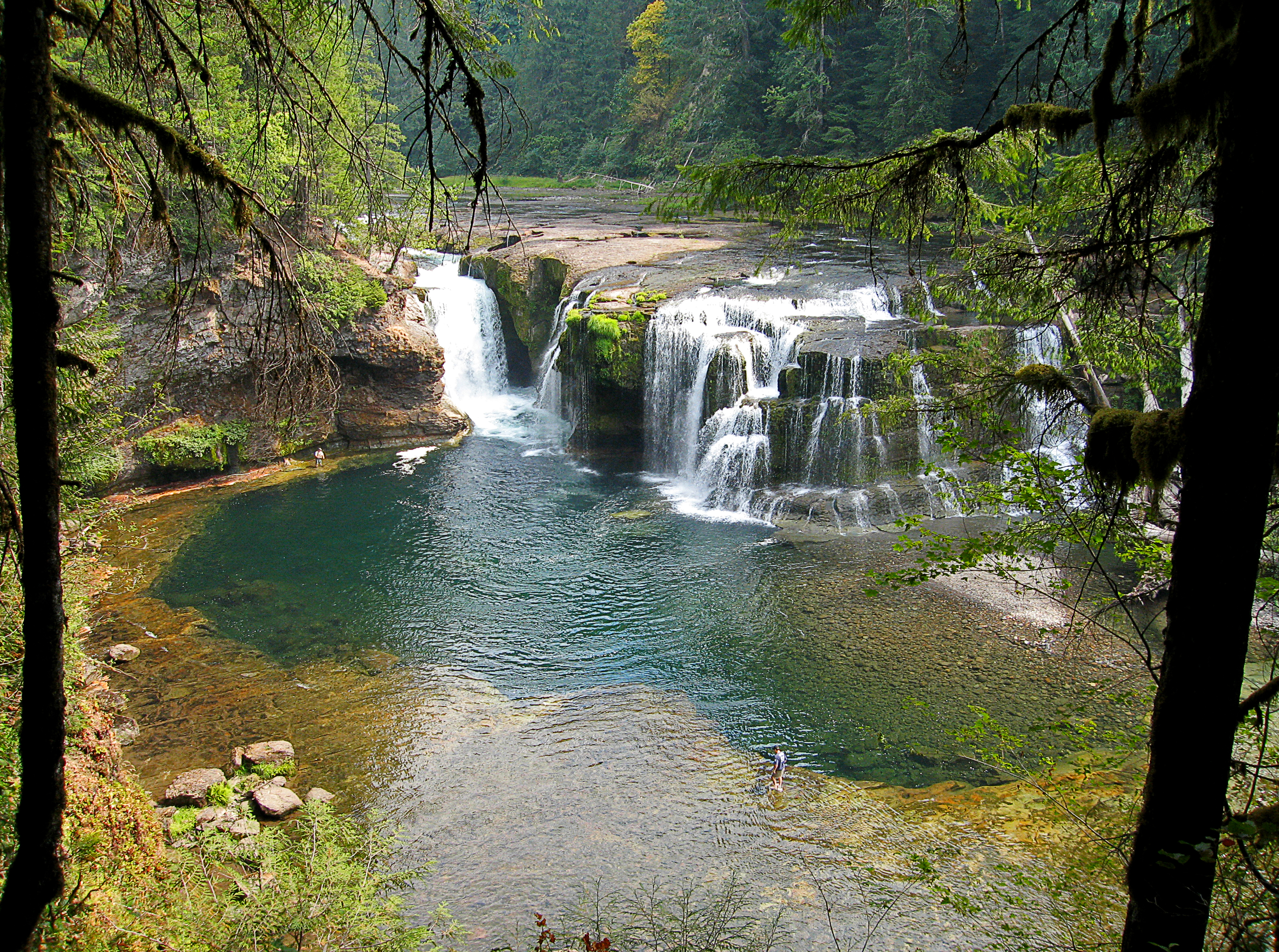 Lower Falls of the Lewis River in Washington state in autumn.